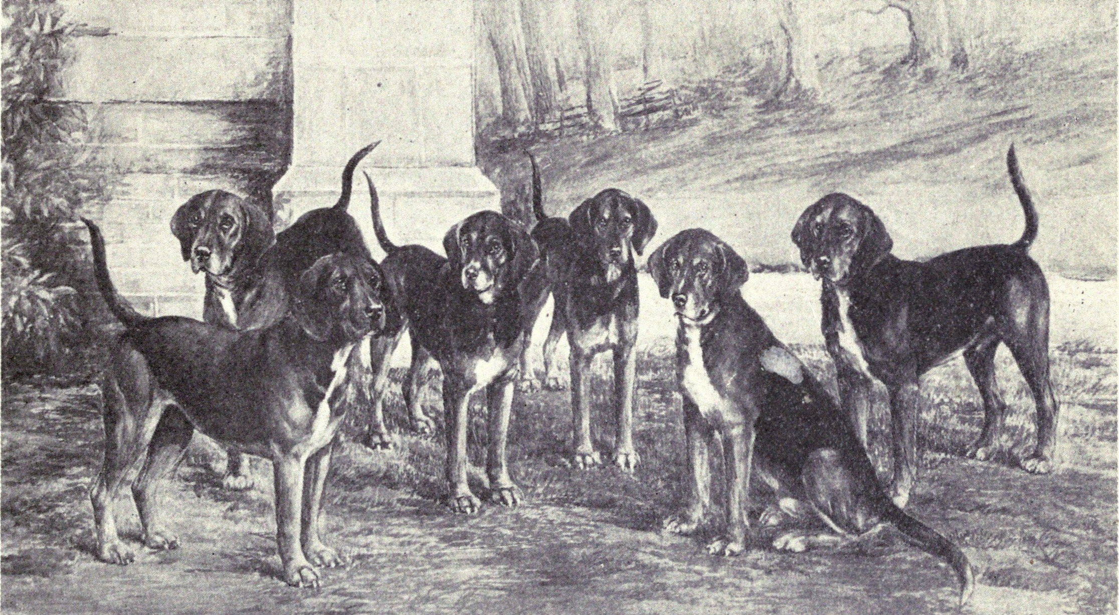 Kerry Beagle from 1915